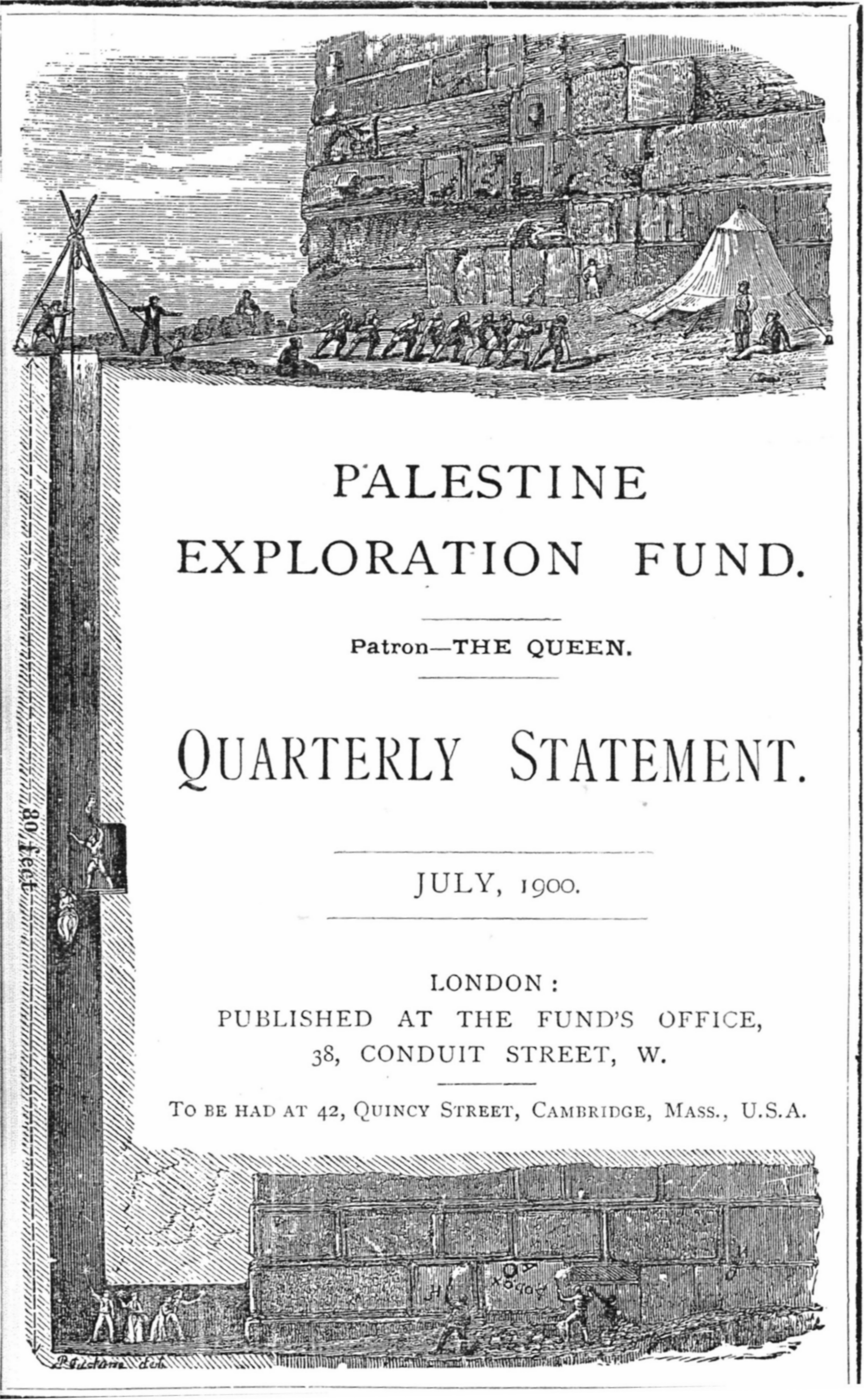 Palestinian Exploration Fund, Quarterly Statement, July 1900